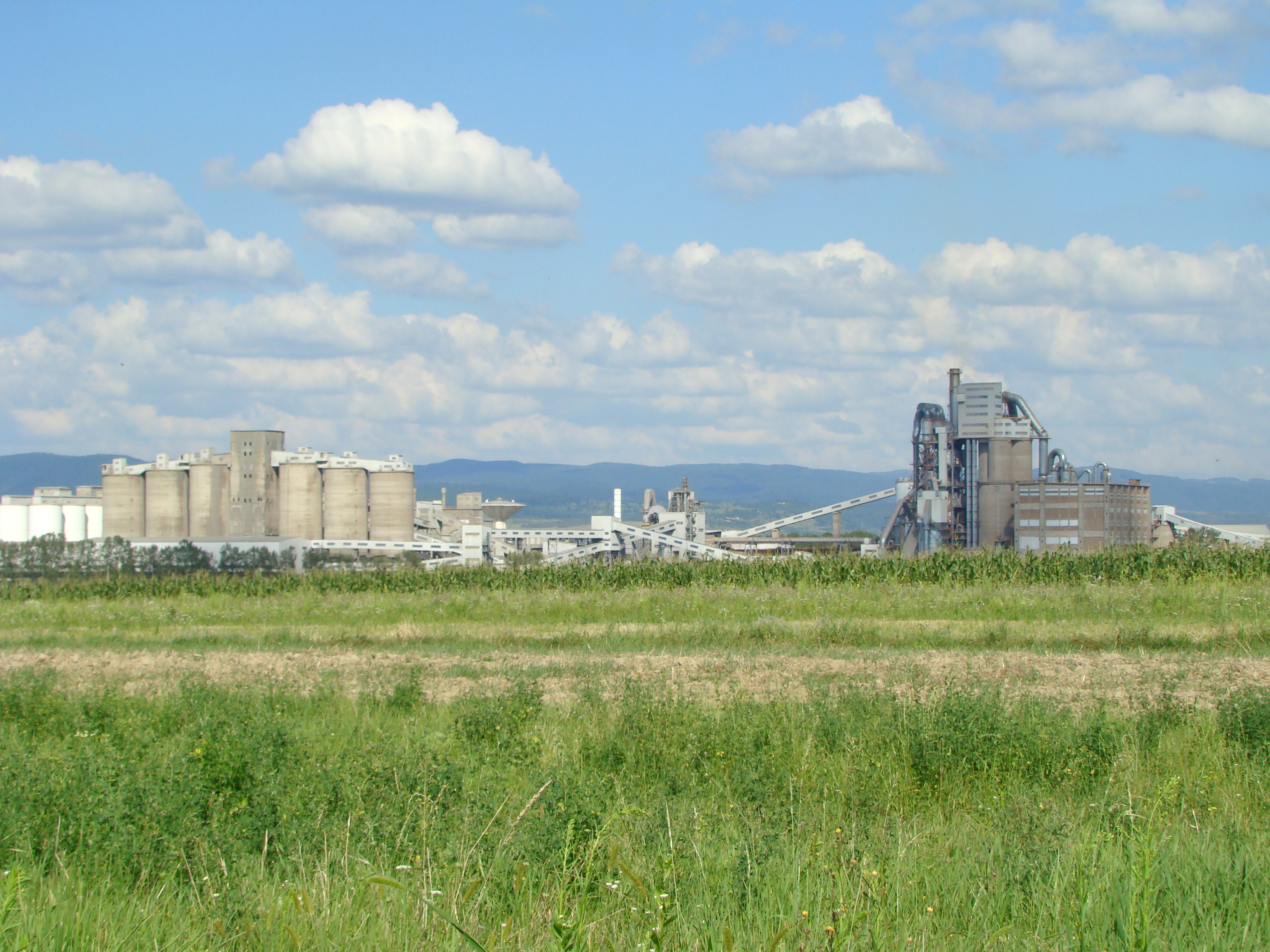 Holcim factory in Chistag (Aleşd), Bihor county, Romania